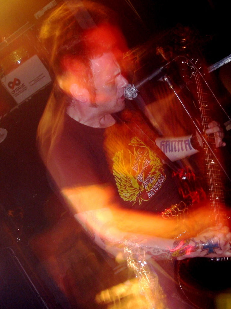 Today Is The Day's Steve Austin @ Zagreb, Mochvara, Croatia, May 28, 2003